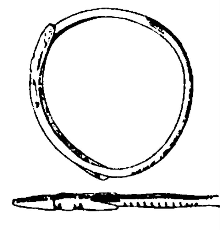 Ancient archaeological finds: bracelets with overlaping ends ; ancient Dacia Slimnic type according to Dorin Popescu historian